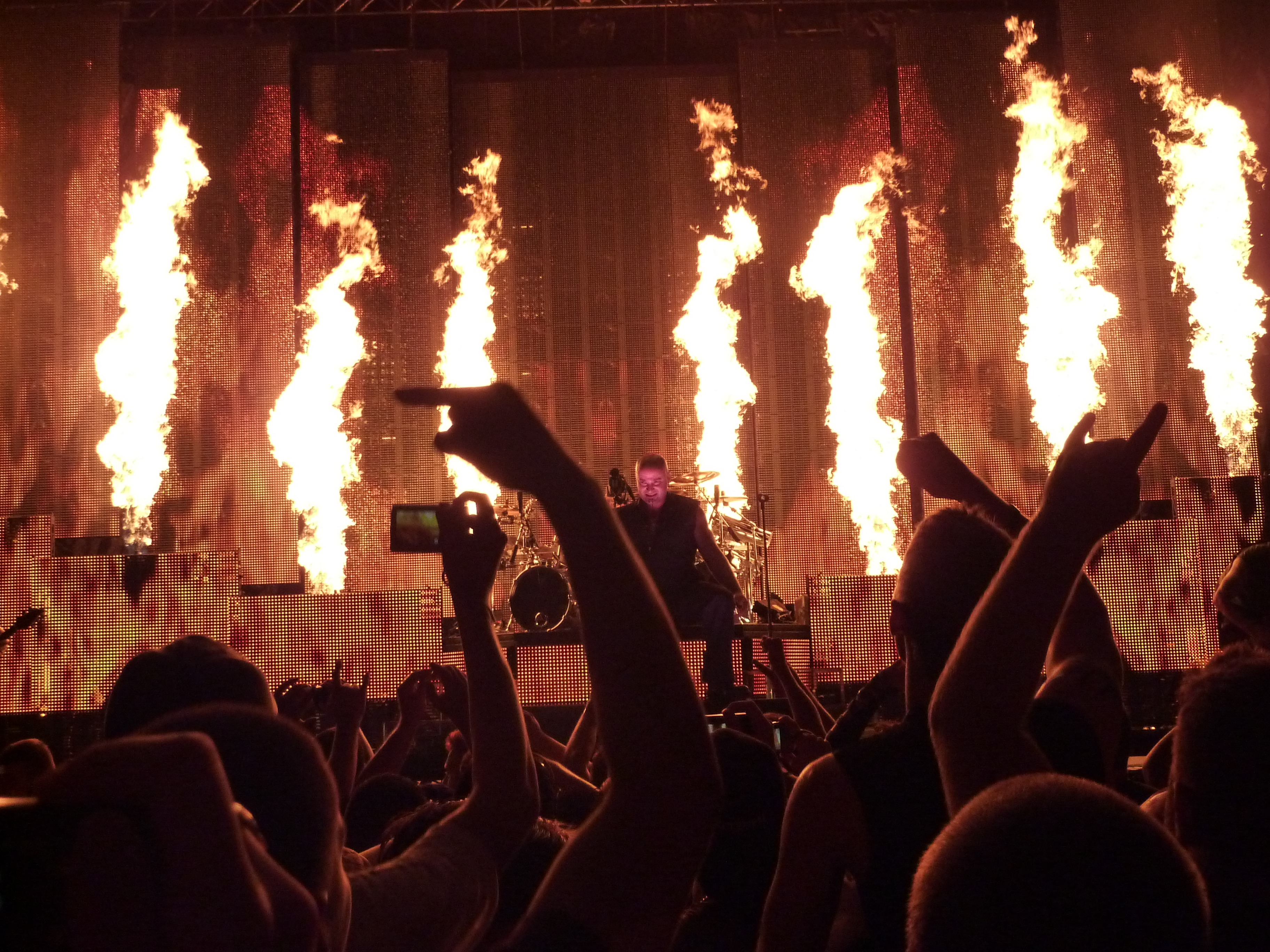 Disturbed performing Inside the Fire live.